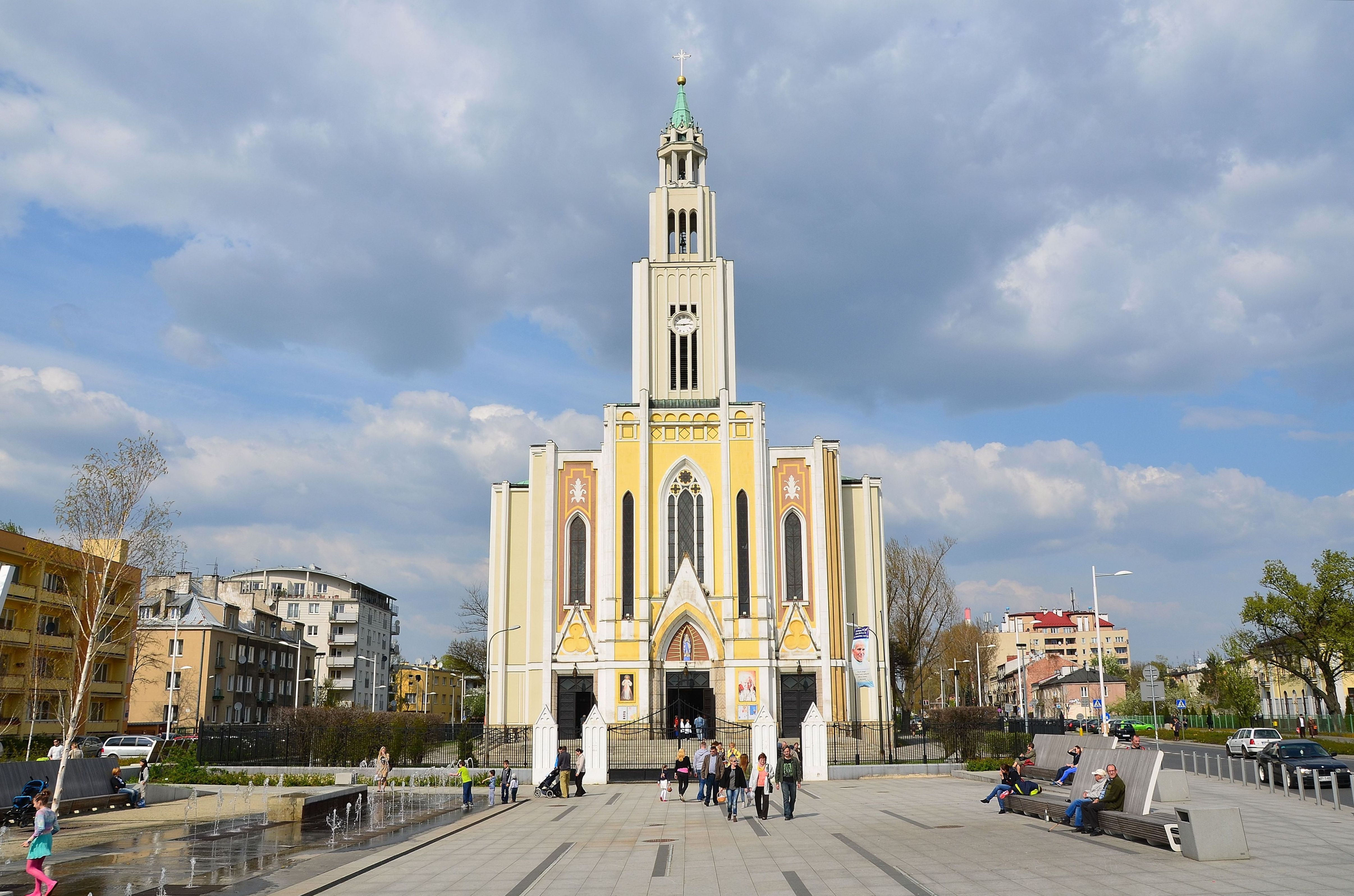 Church of the Immaculate Heart of Mary in Warsaw